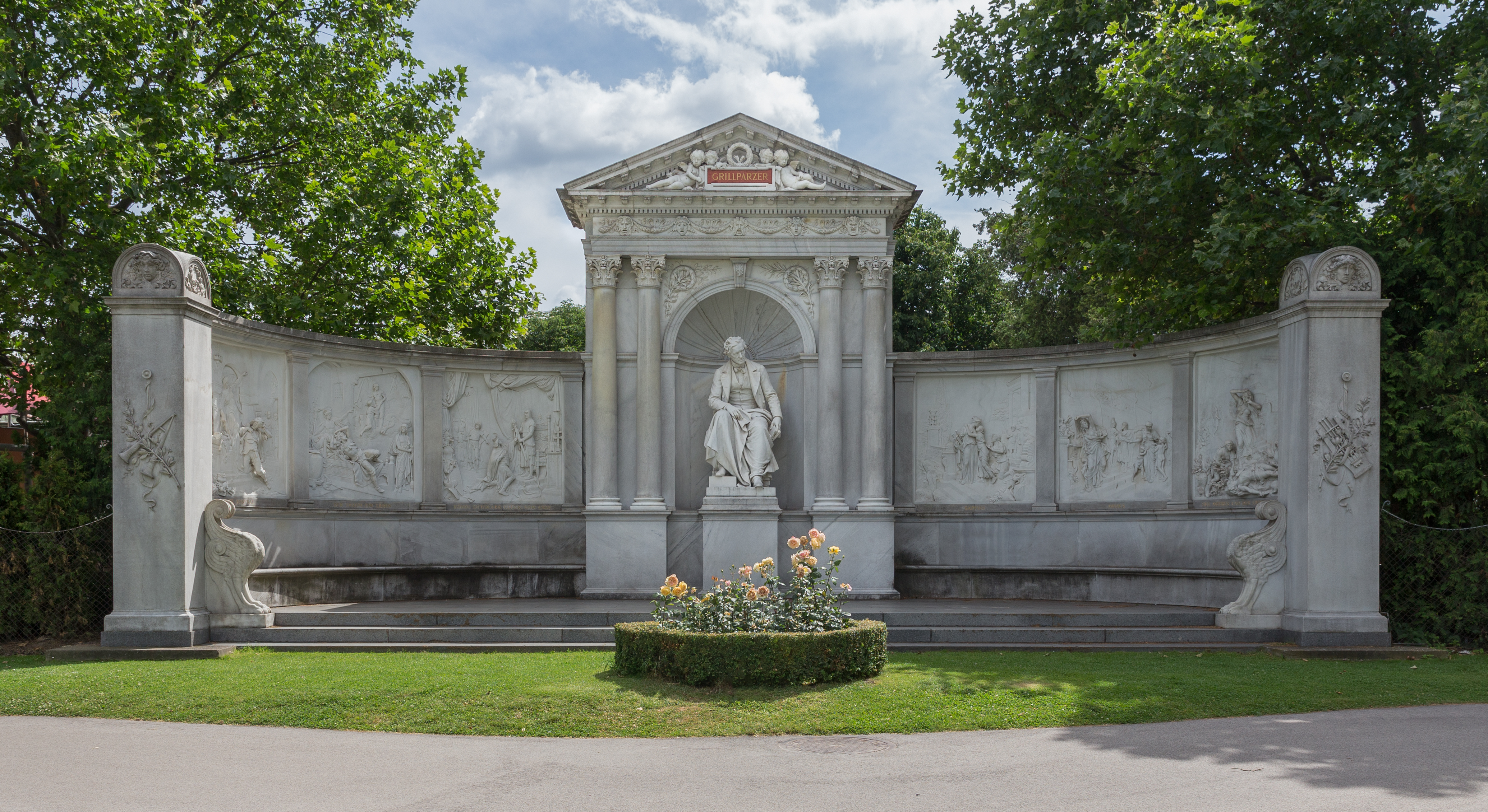 Grillparzer monument, Volksgarten (vienna), main figure by Carl Kundmann basreliefs by Rudolf Weyr The making of this work was supported by Wikimedia Austria. For other files made with the support of Wikimedia Austria, please see the category Supported by Wikimedia Österreich.